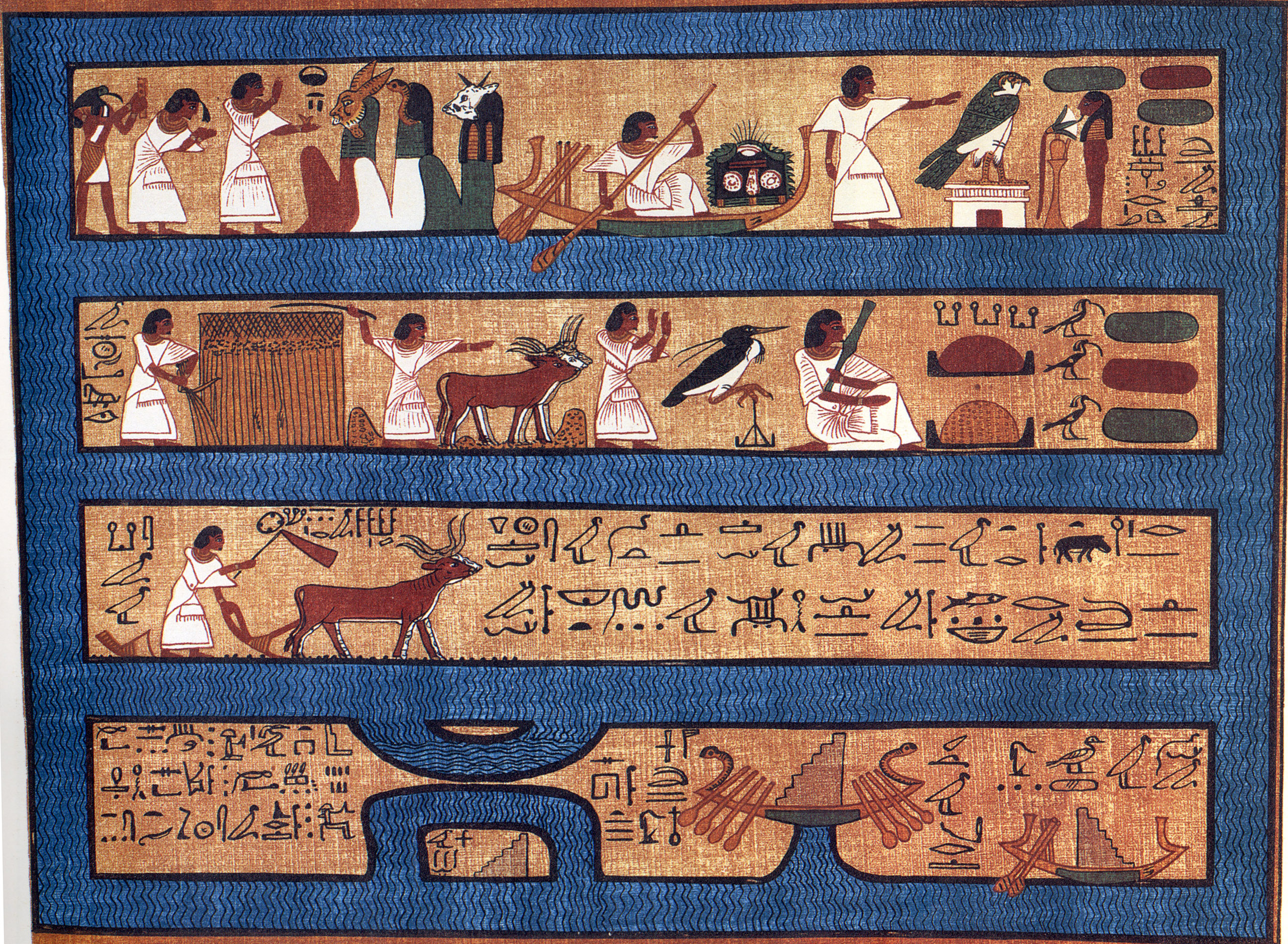 Facsimile of a vignette from the Book of the Dead of Ani. Ani is shown in the afterlife, farming, boating, and worshipping various gods in the marshlike Field of Hotep (field of offerings or field of peace).